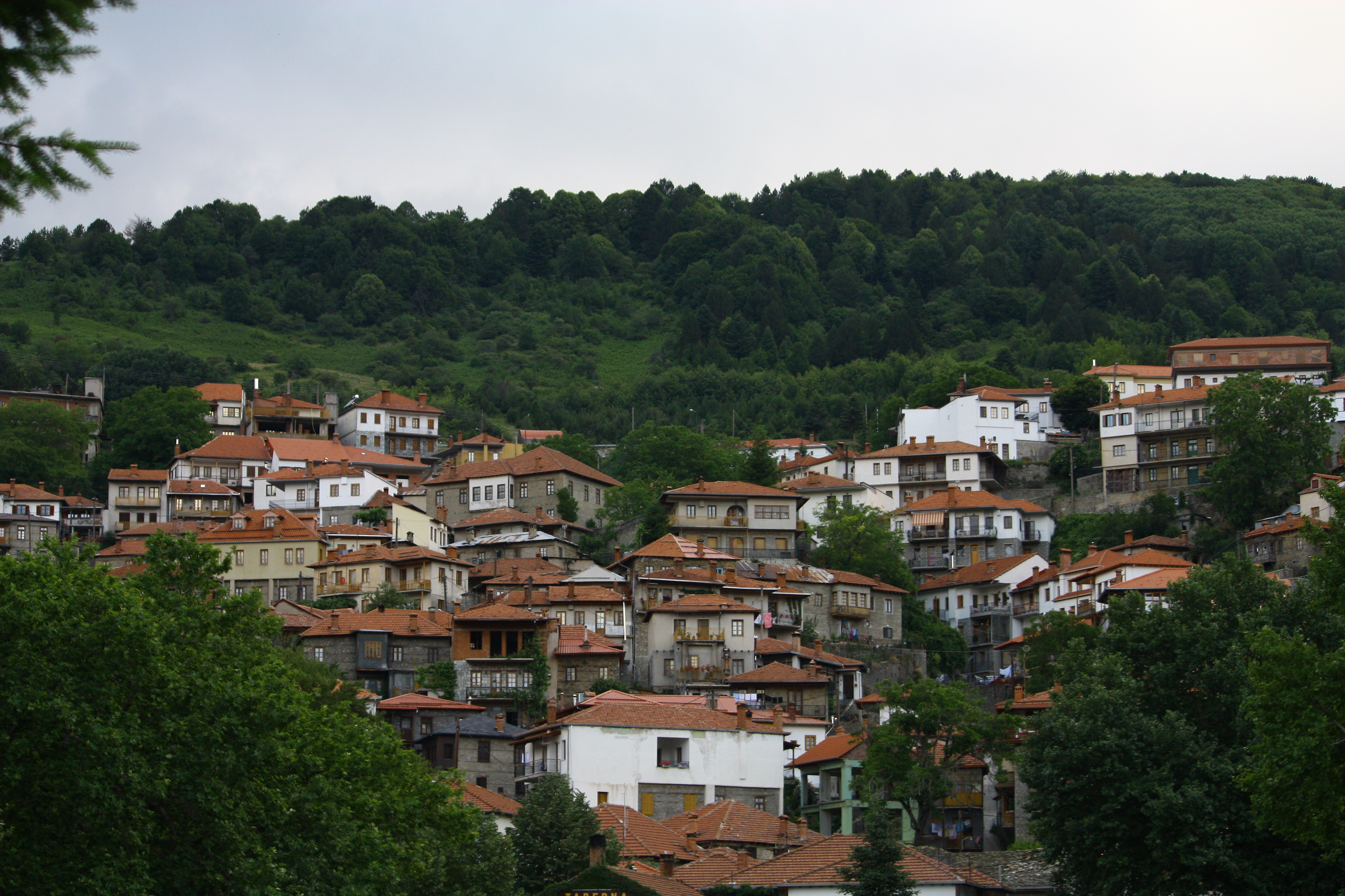 This is a photography of Natura 2000 protected area with ID GR2130006